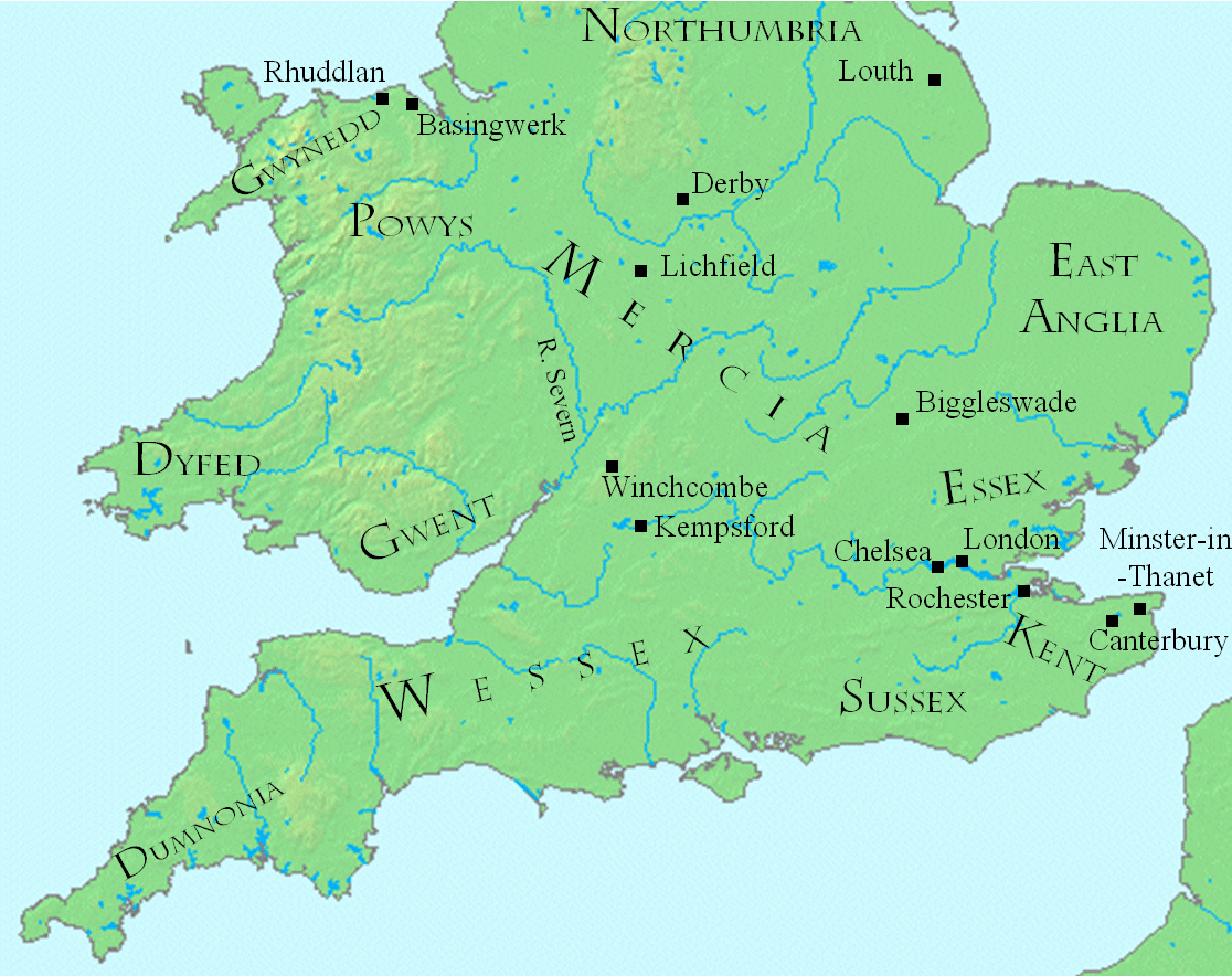 This map shows places relevant to the article on Coenwulf of Mercia This file was created using DMIS. On that site it is stated that "We do not claim copyright on the images, so you can use them for Wikipedia."